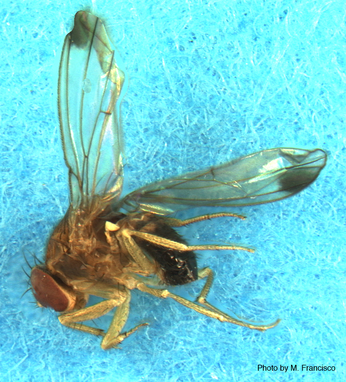 Automontage stereomicrograph of male Drosophila suzukii.